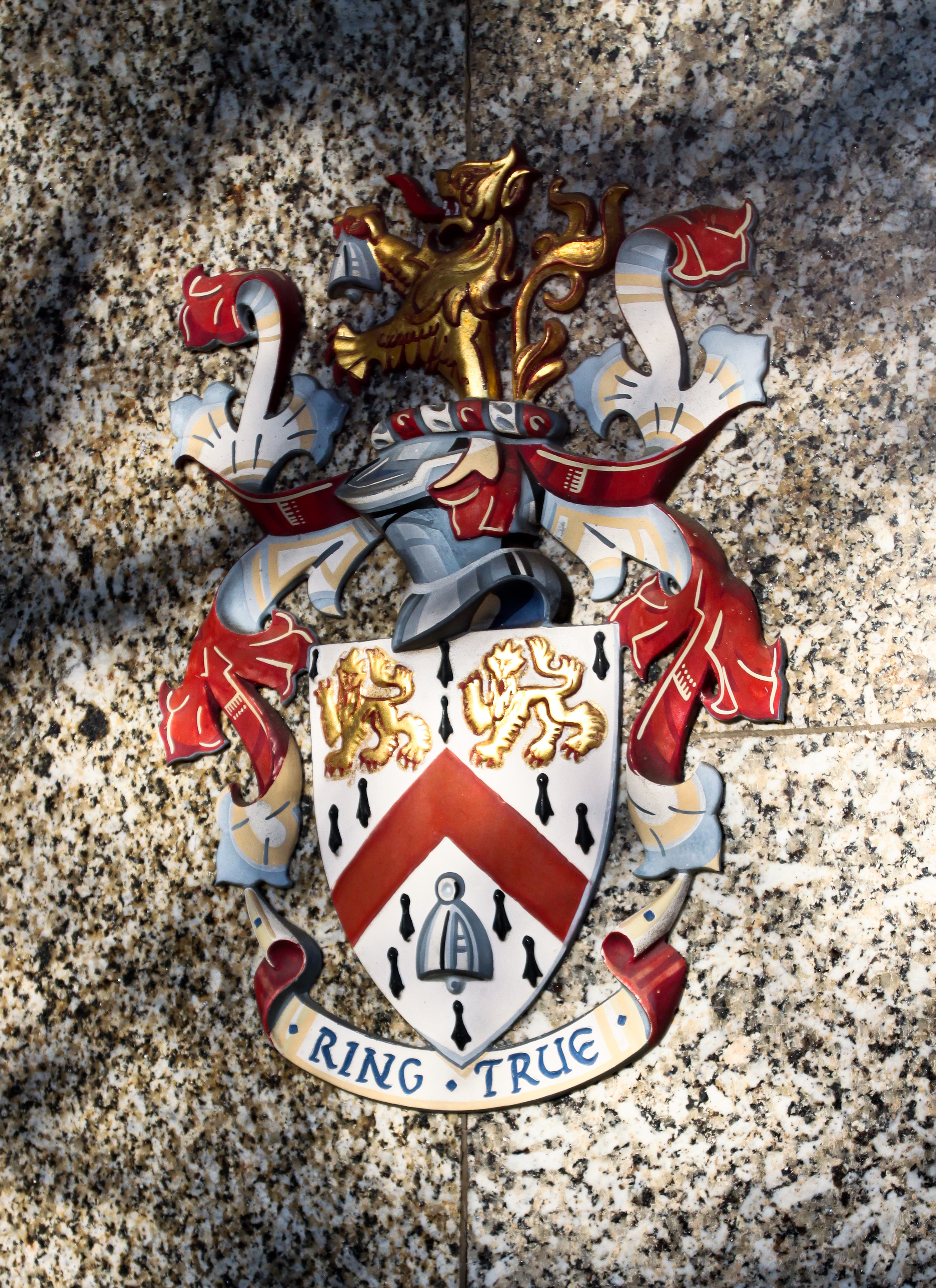 Crest of Wolfson College, Cambridge next to the main entrance